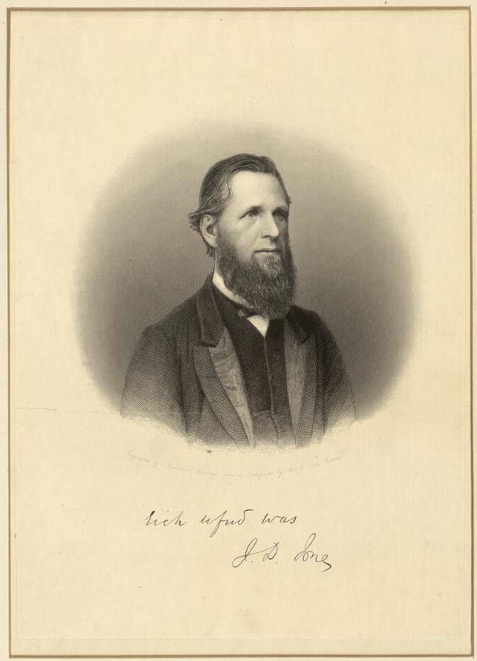 A portrait from the Welsh Portrait Collection at the National Library of Wales. Depicted person: Joseph David Jones – Welsh composer and schoolmaster